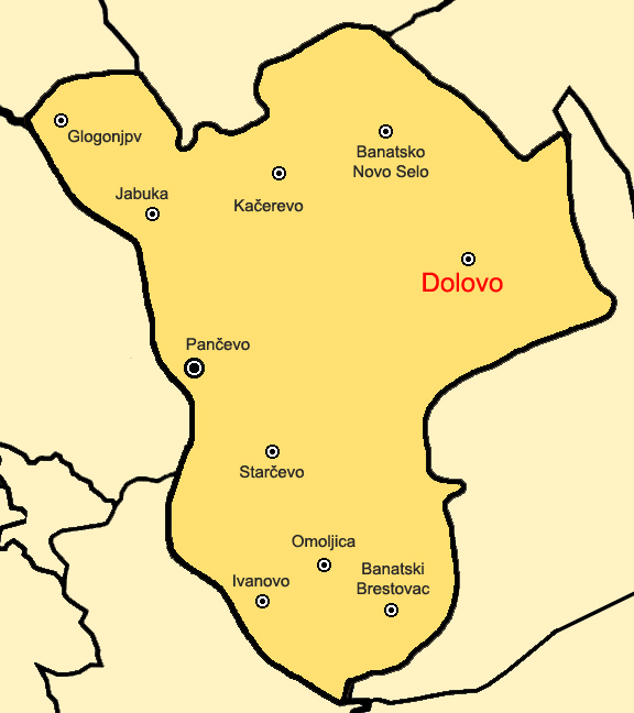 Shows location of Dolovo village in the Pančevo administrative area.